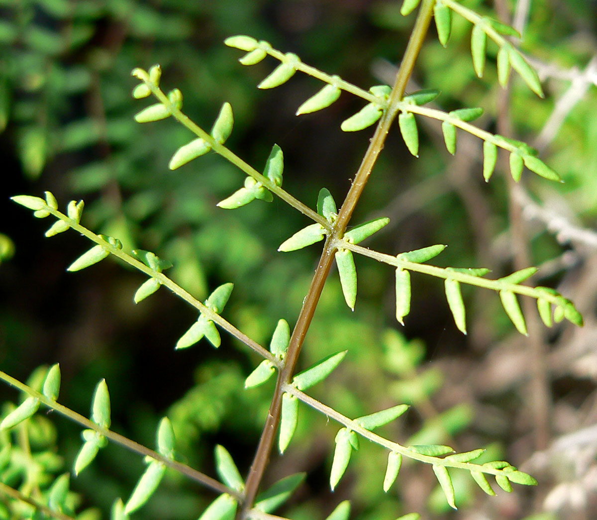 Photo of Pellaea mucronata at the Regional Parks Botanic Garden, Berkeley, California